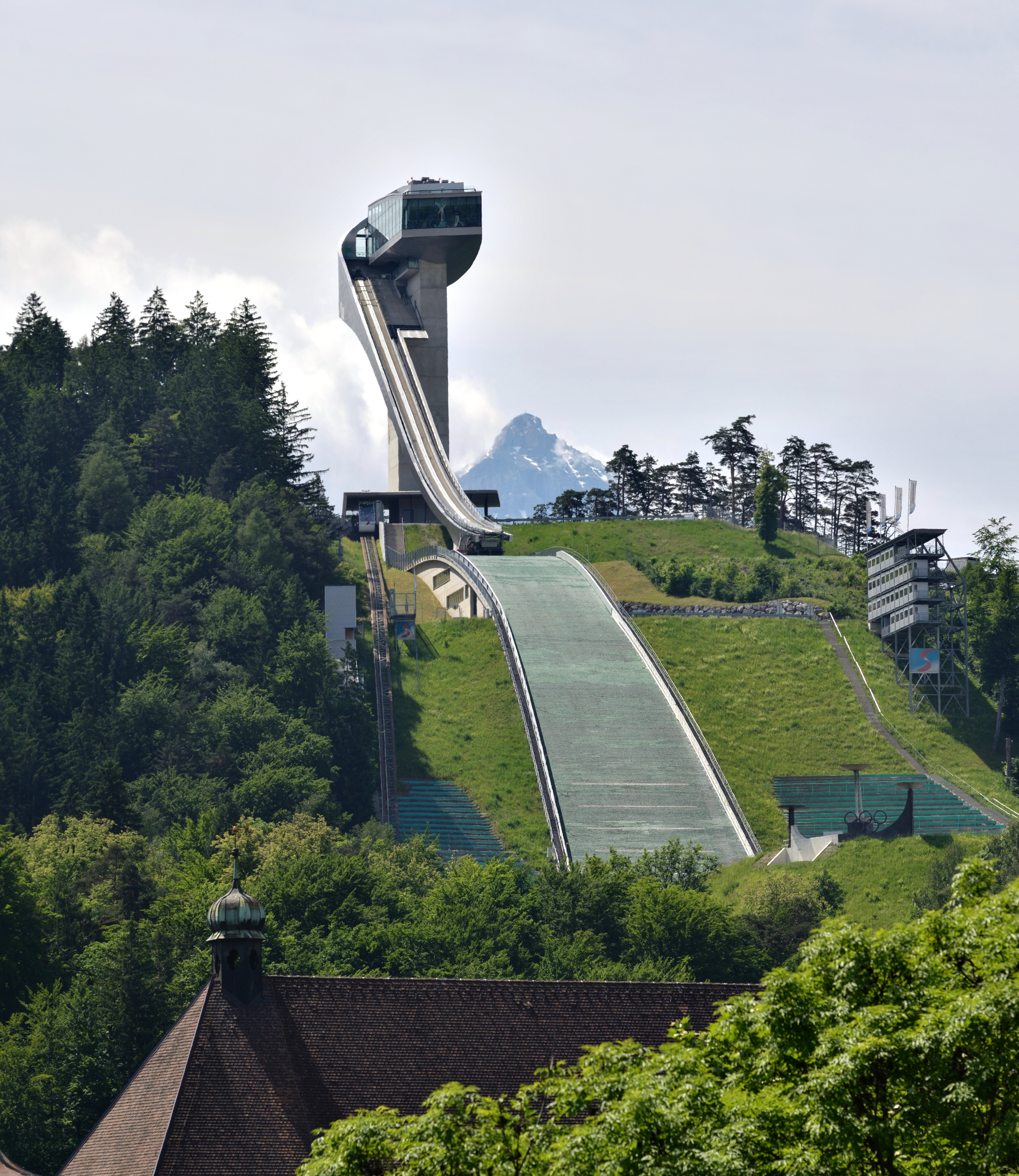 Innsbruck: Ski Jumping hill Bergisel, in the background the top of Serles (2718m)